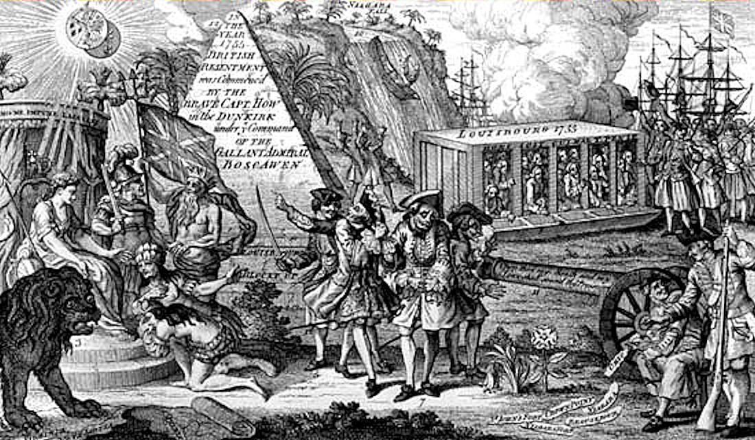 Siege_of_Louisbourg_allegory.